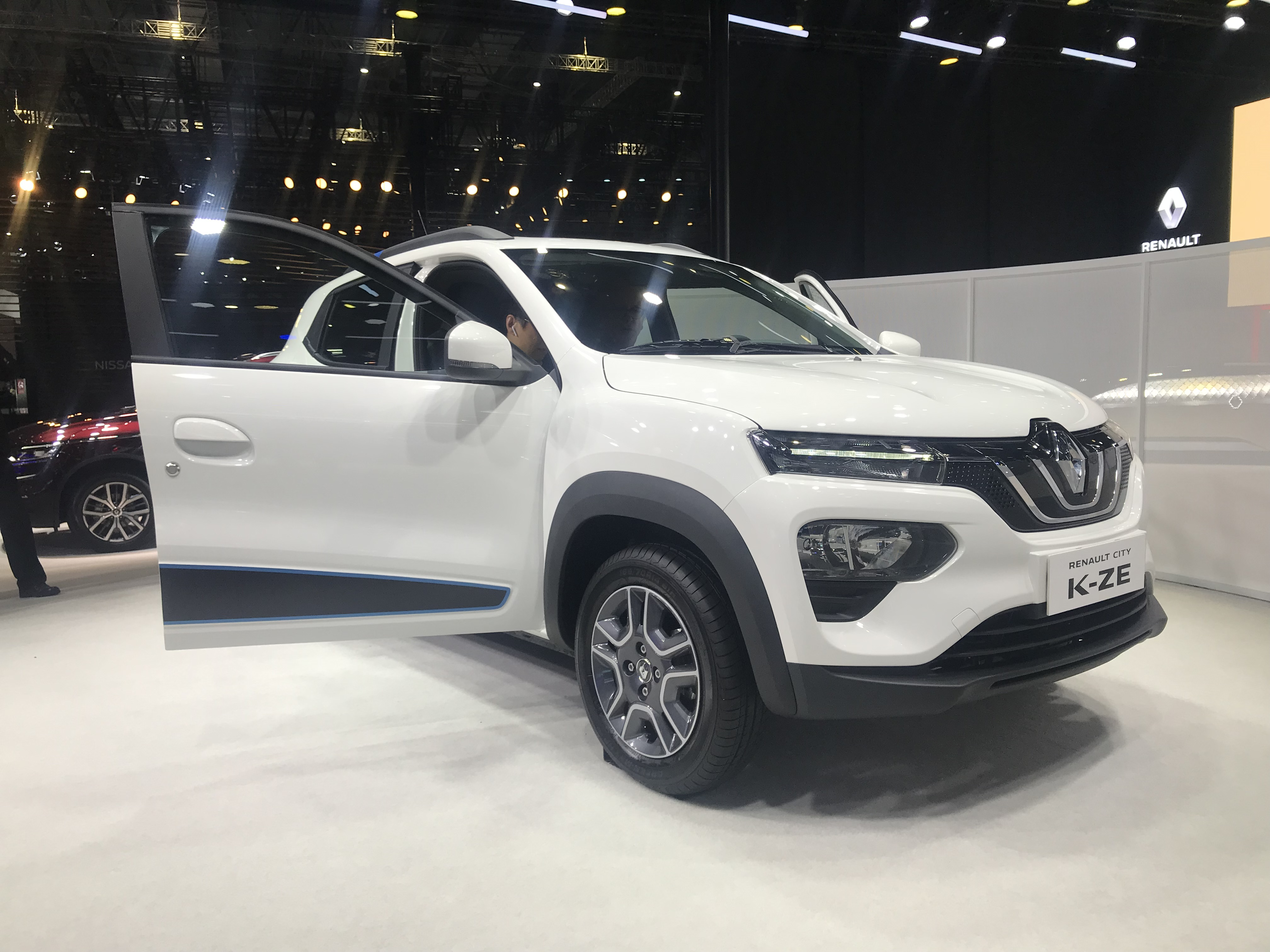 Renault K-ZE front